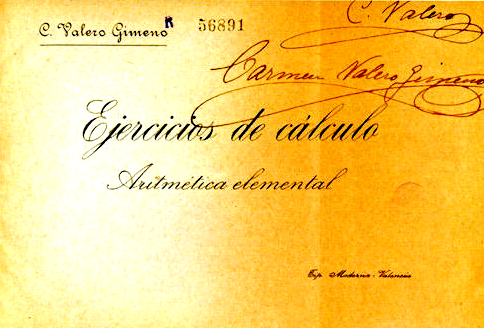 Ejercicios de calculo de Carmen Valero